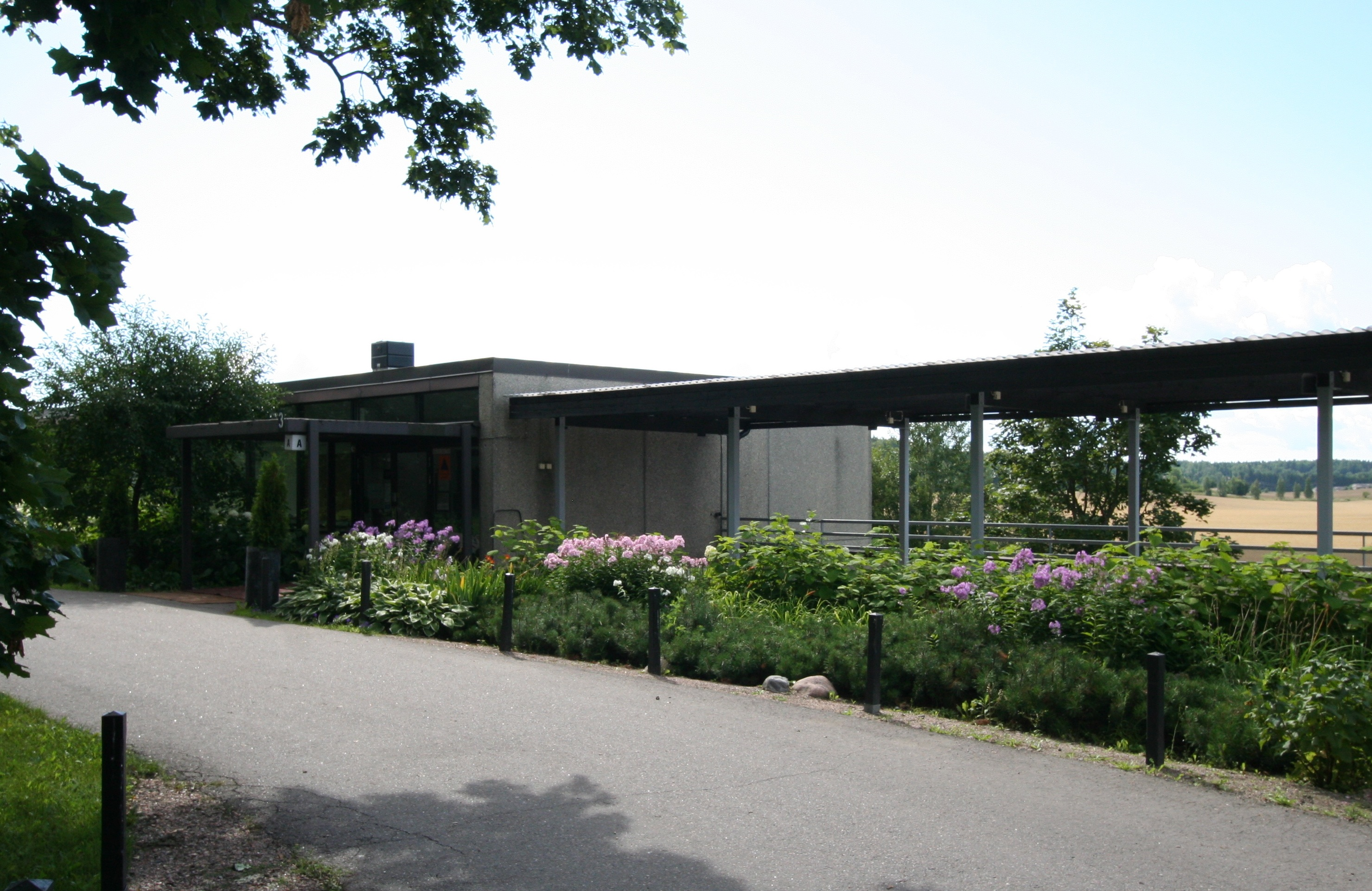 New building of Hämeenkylä kartano hotel